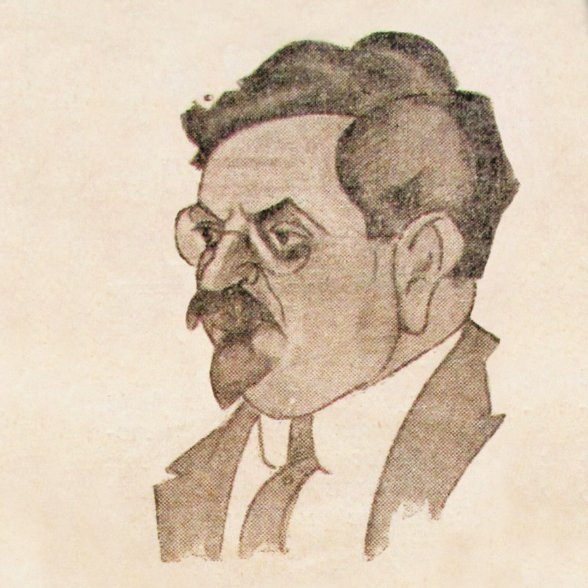 Rista Odavic, Podne br.1, 10. mart 1924, dramaturge of National Theatre in Belgrade